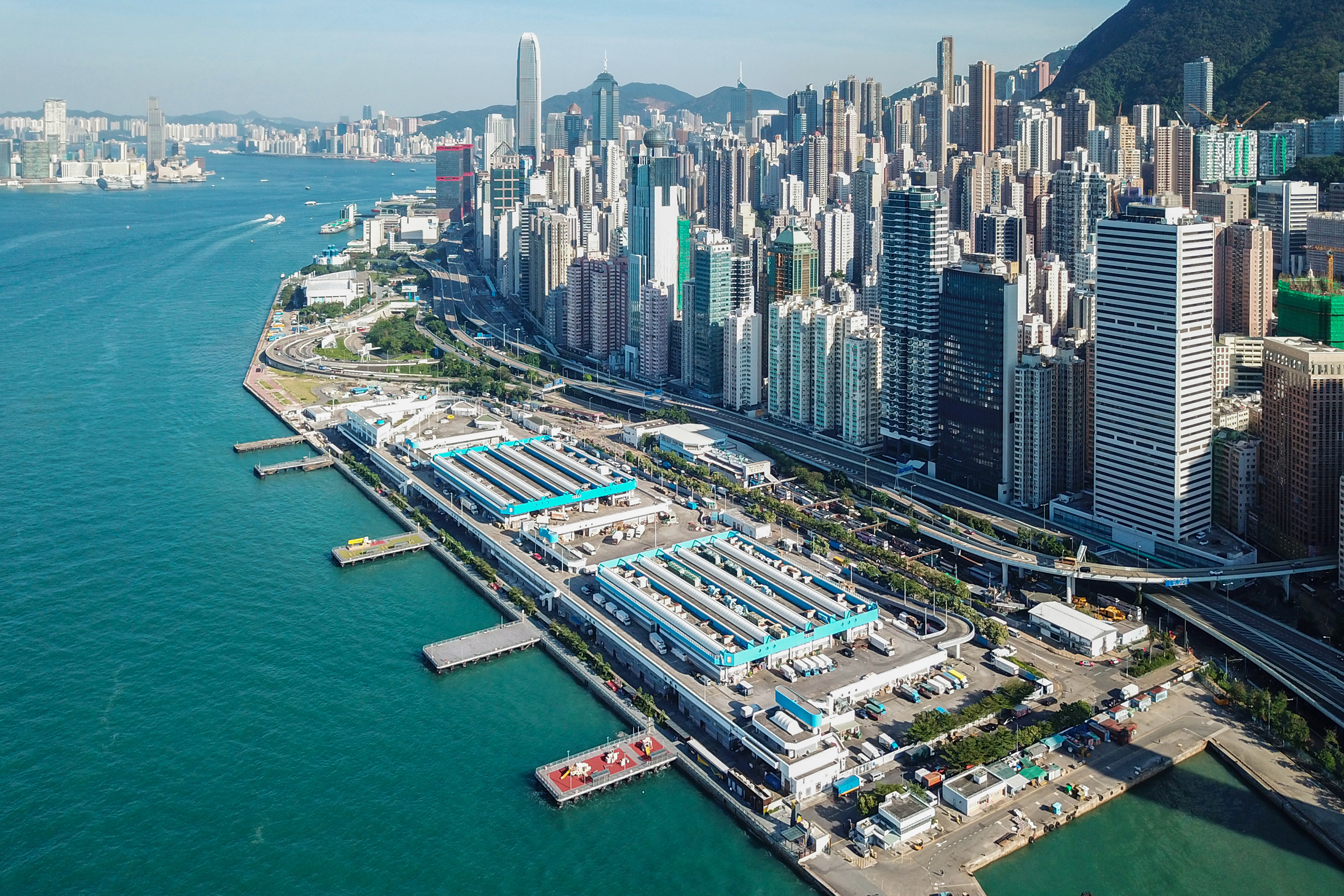 Western Wholesale Food Market